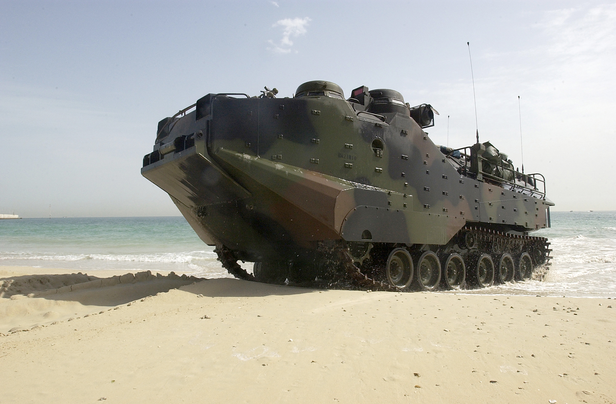 Marines navigate an Amphibious Assault Vehicle (AAV) from the amphibious dock landing ship USS Gunston Hall (LSD 44) onto the beach before being loaded on trucks for pre-positioning operations. Gunston Hall is part of the USS Bataan Amphibious Ready Group (ARG) and is currently deployed in support of Operation Enduring Freedom.